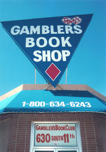 Gambler's Book Shop, building facade. Film photograph, scanned, cropped & enhanced